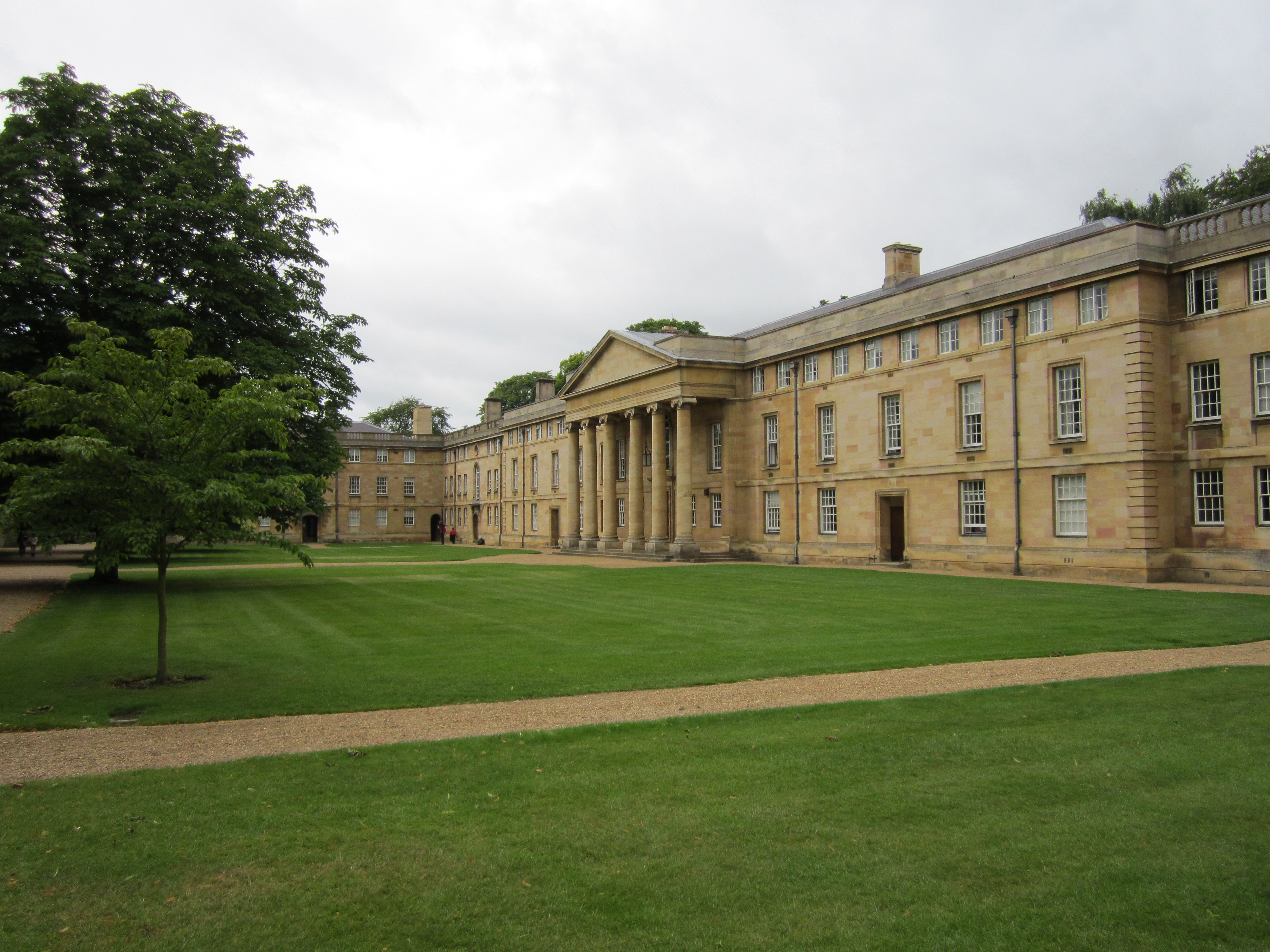 Downing College, Cambridge, England.